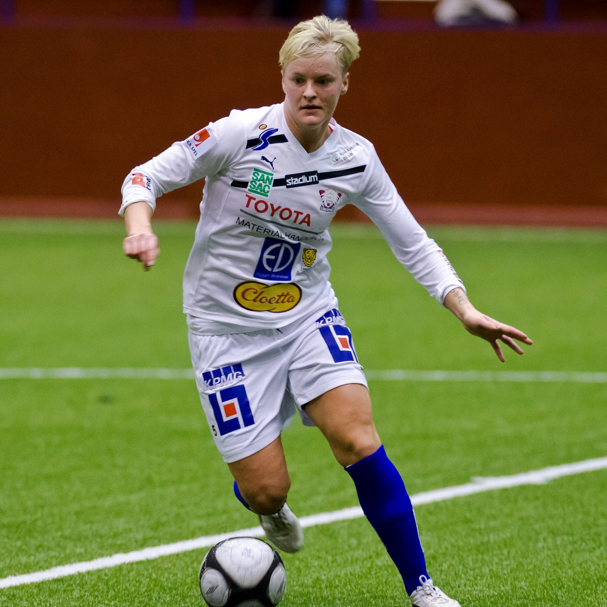 Nilla Fischer playing for her new squad Linköping in the final of Växjö 2013 Cup.